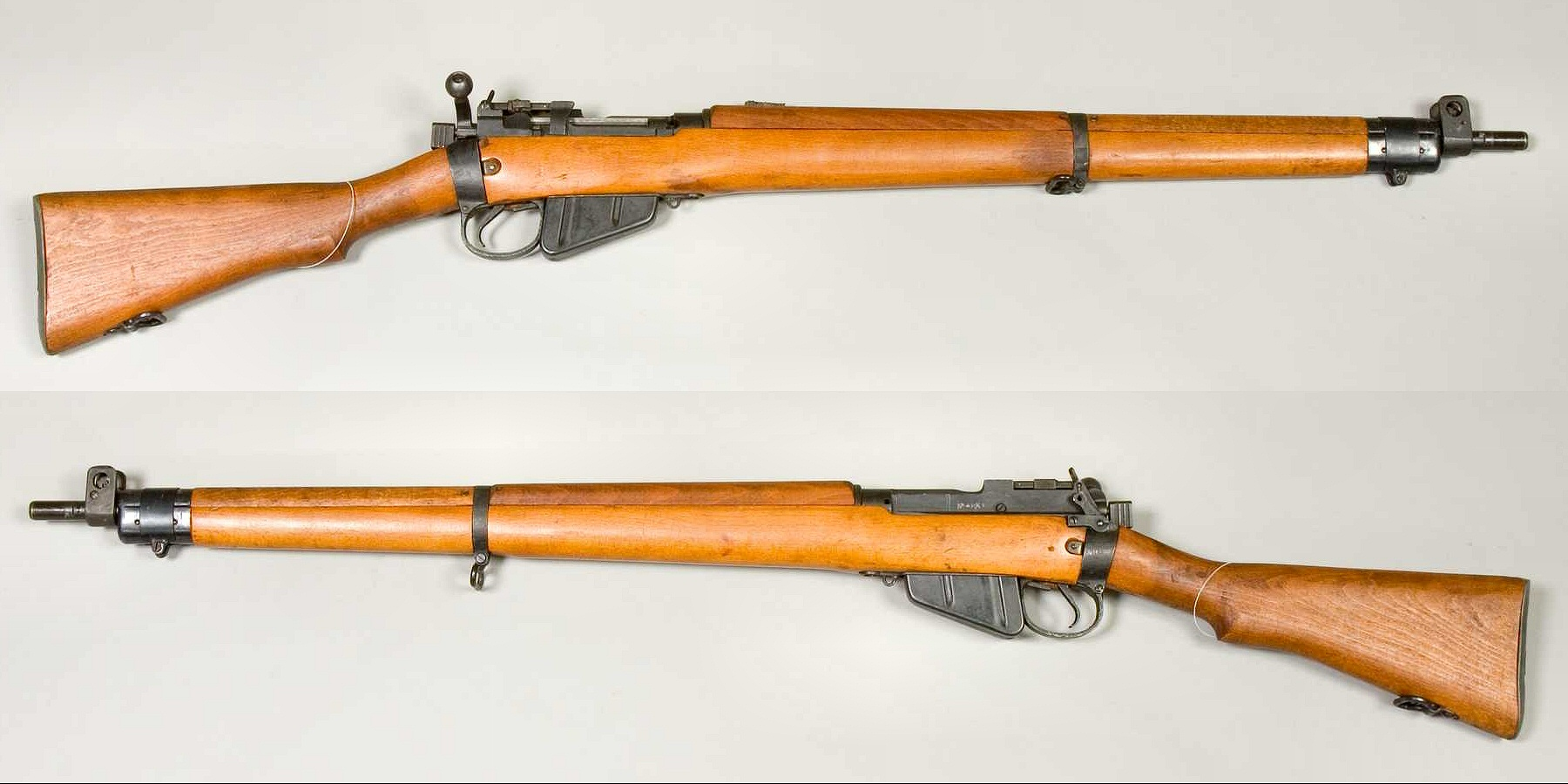 Lee-Enfield No 4 Mk I rifle, made in 1943. Caliber .303" British. From the collections of Armémuseum (Swedish Army Museum), Stockholm, Sweden.